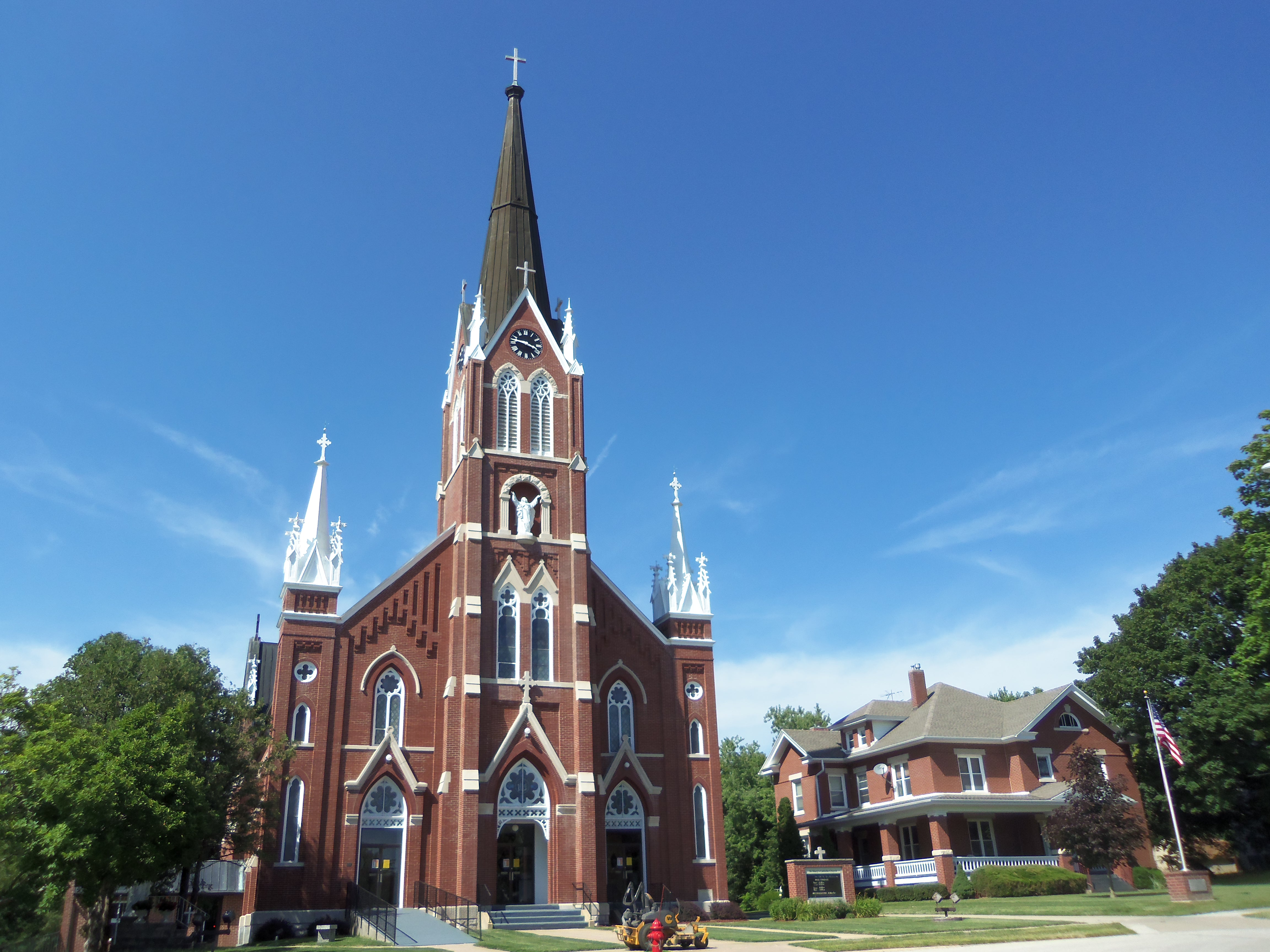 Saint Mary's Church and Rectory in Riverside, Iowa. They are part of a historic district on the National Register of Historic Places that includes all the parish buildings.